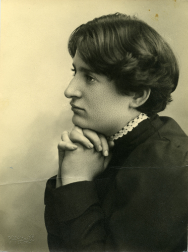 Photograph